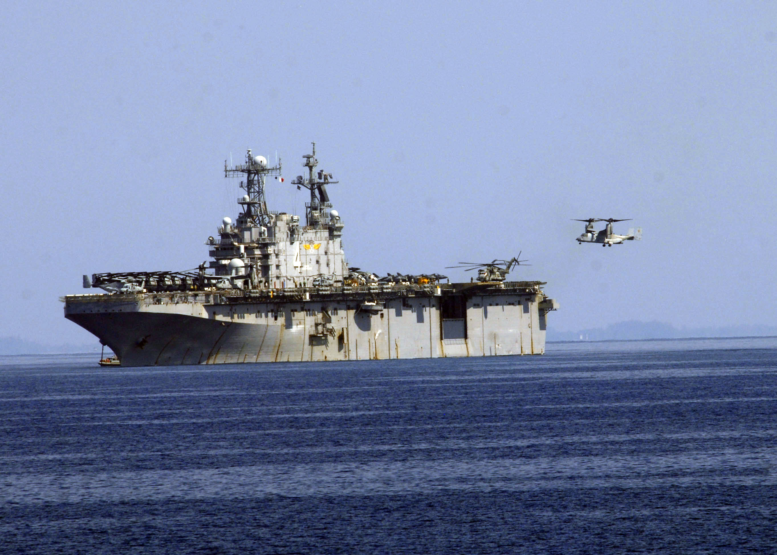 NEPLY, Haiti (Feb. 8, 2010) A V-22 Osprey prepares to land aboard the amphibious assault ship USS Nassau (LHA 4) off the coast of Haiti. Nassau is conducting humanitarian and disaster relief operations as part of Operation Unified Response after a 7.0 magnitude earthquake caused severe damage in and around Port-au-Prince, Haiti Jan. 12. (U.S. Navy Photo by Mass Communication Specialist 1st Class Edward Kessler/Released)